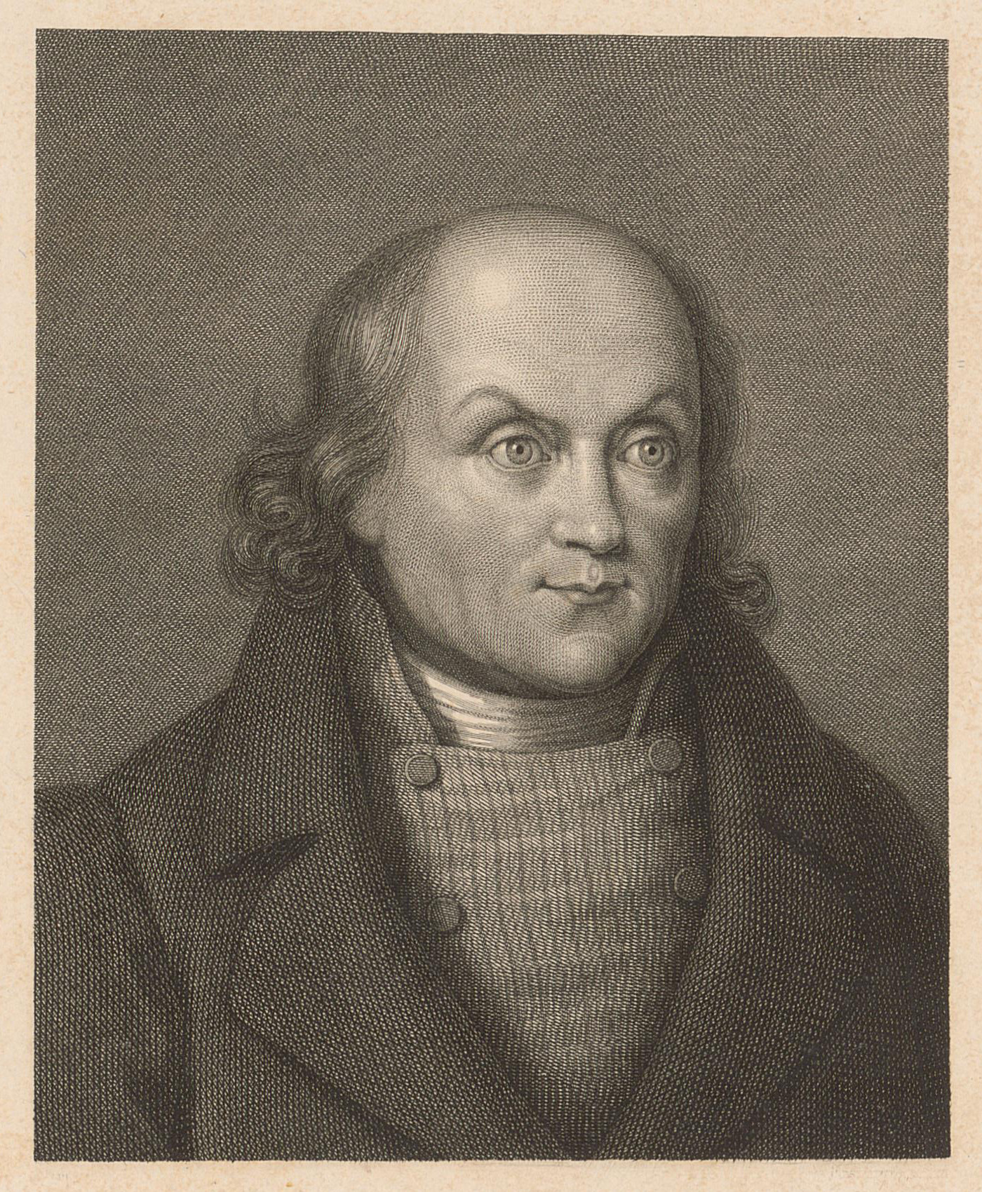 Engraving of Hans Georg Nägeli by Martin Esslinger, published by Orell Füssli und Comp.